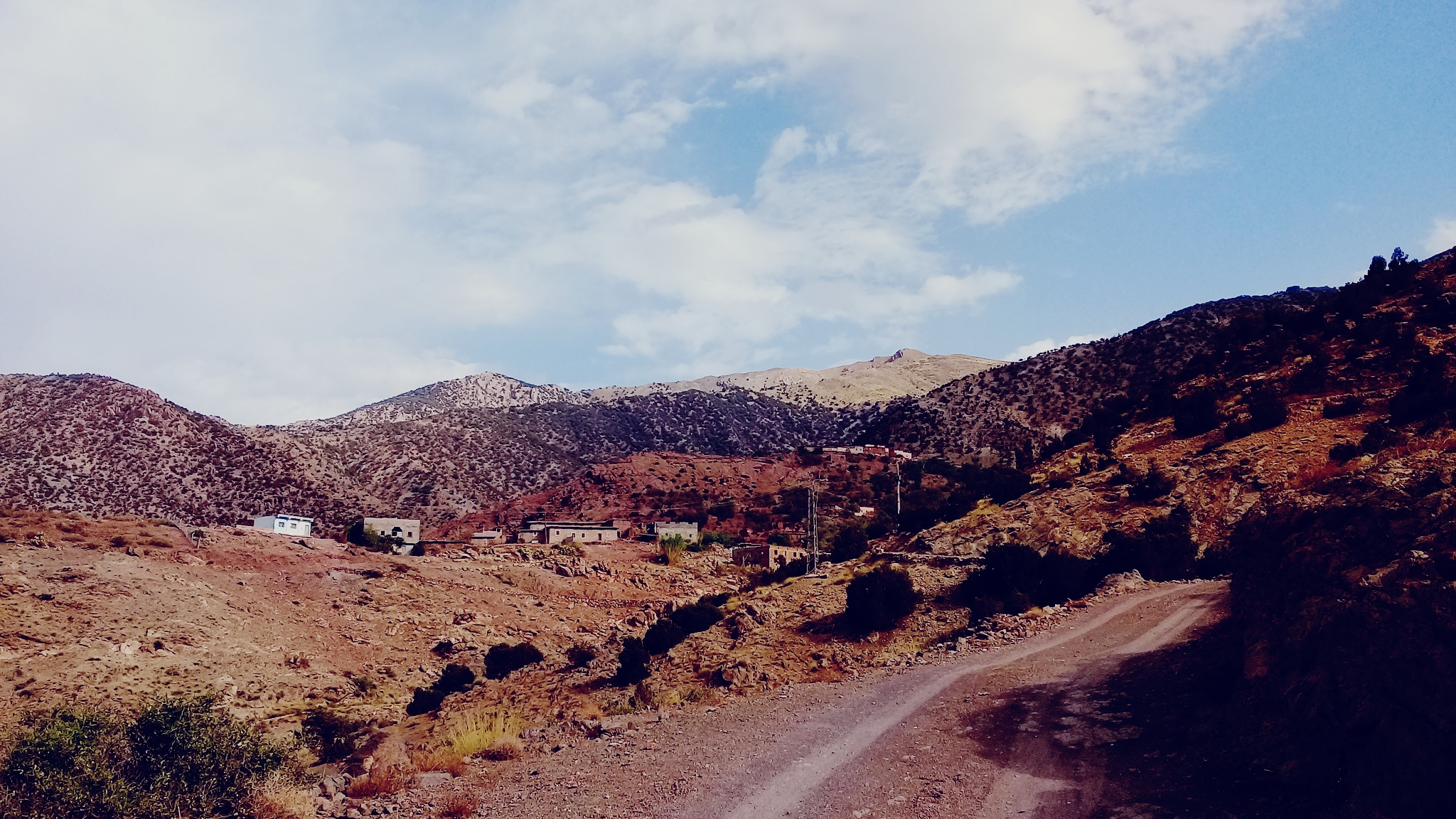 This is an image with the theme "Africa on the Move or Transport" from: Morocco